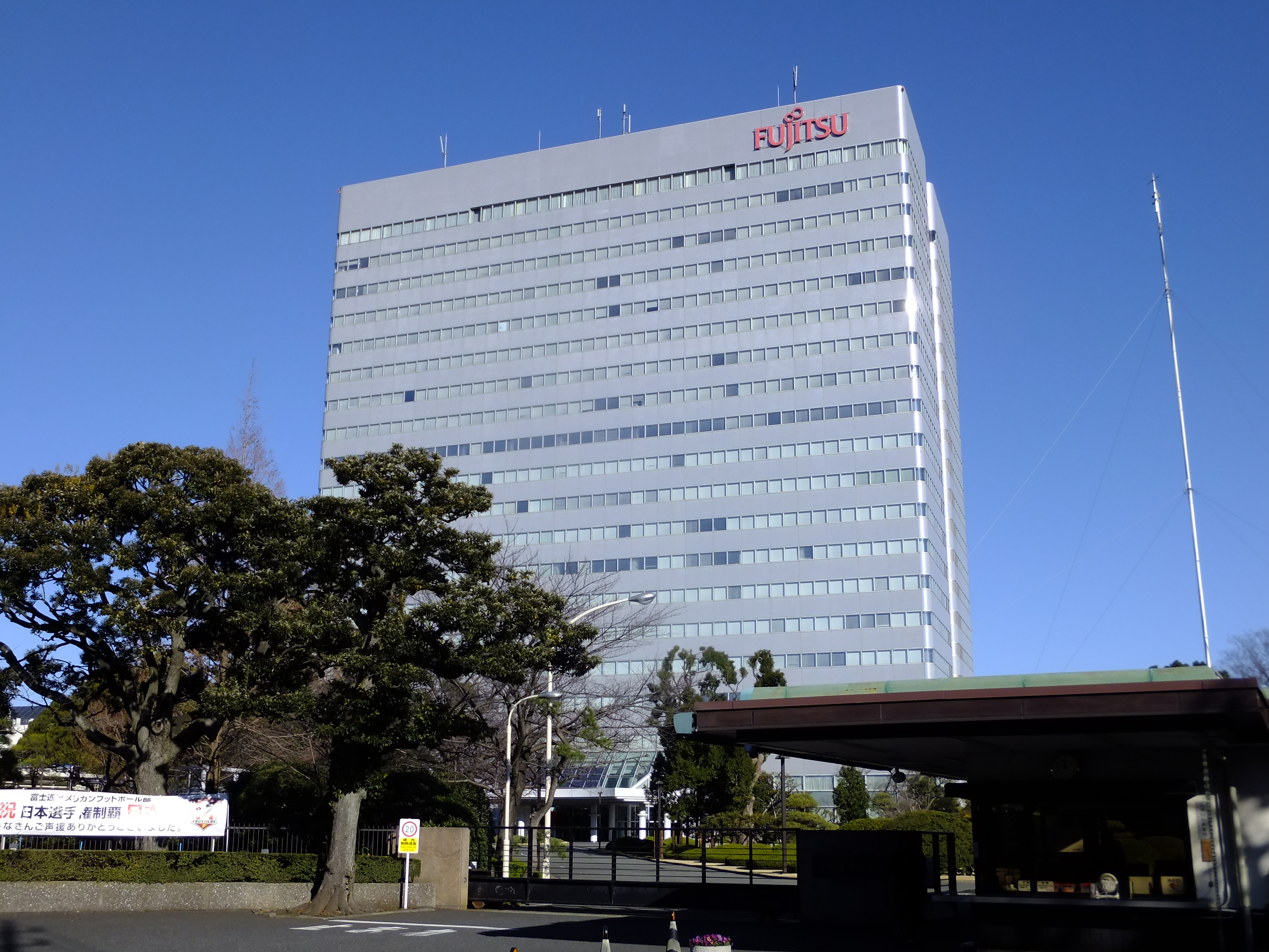 Fujitsu Kawasaki Main Office in Kawasaki City, Japan